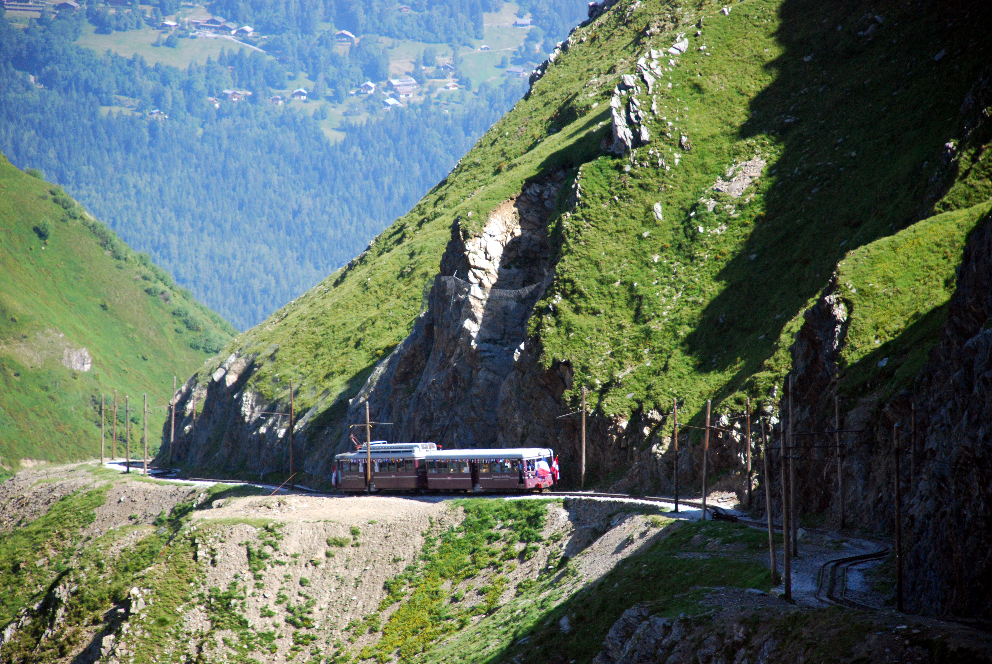 TMB EMU between Mont-Lachat and Nid d'Aigle.